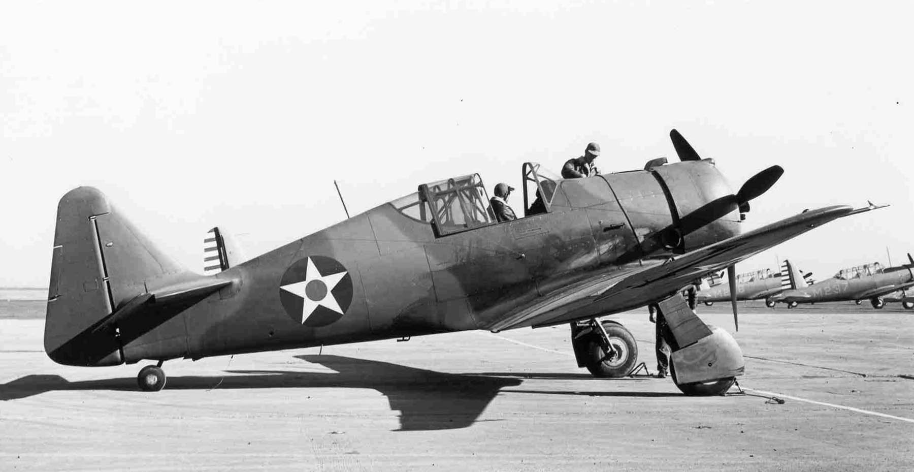 North American P-64 at Moffett Field on December 6, 1941.